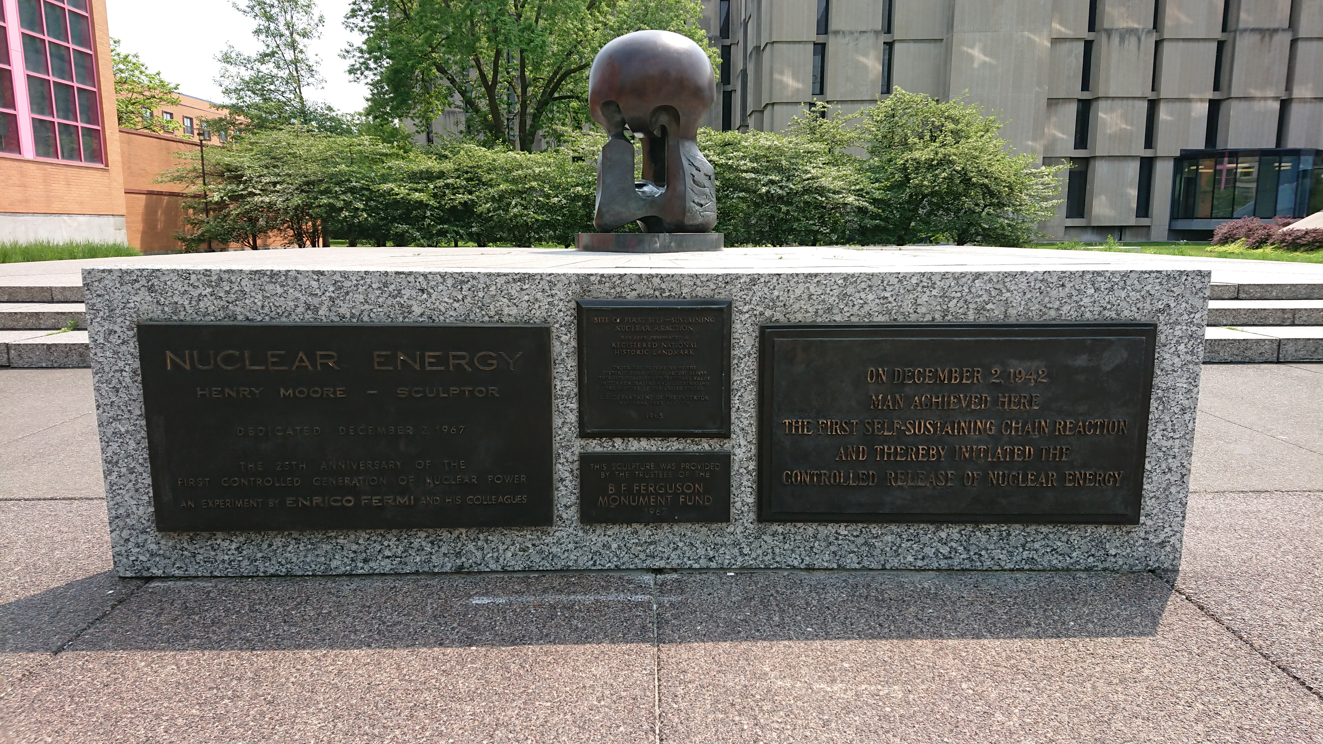 Chicago Pile 1 monument by Henry Moore in Chicago in May 2019.